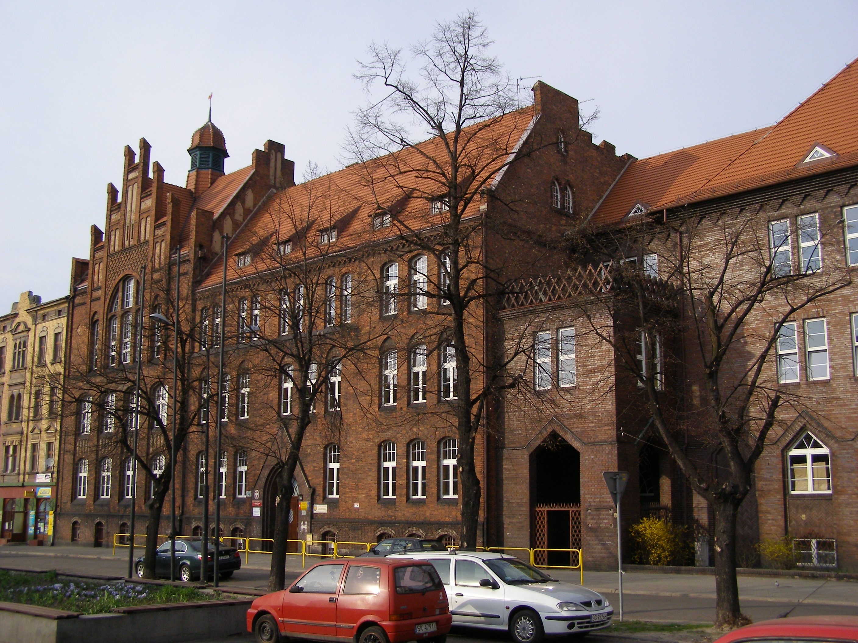 Zabrze - school in Warszawski sq.